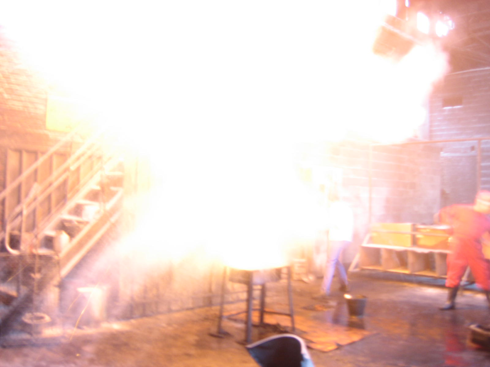 Demonstration of what happens when a glass of water is poured into burning frying oil (the glass is held with a stick, from 5 m distance).